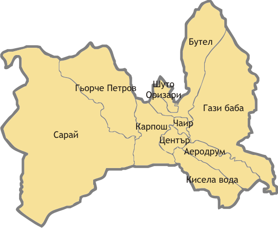 Map of City of Skopje Municipality in Bulgarian